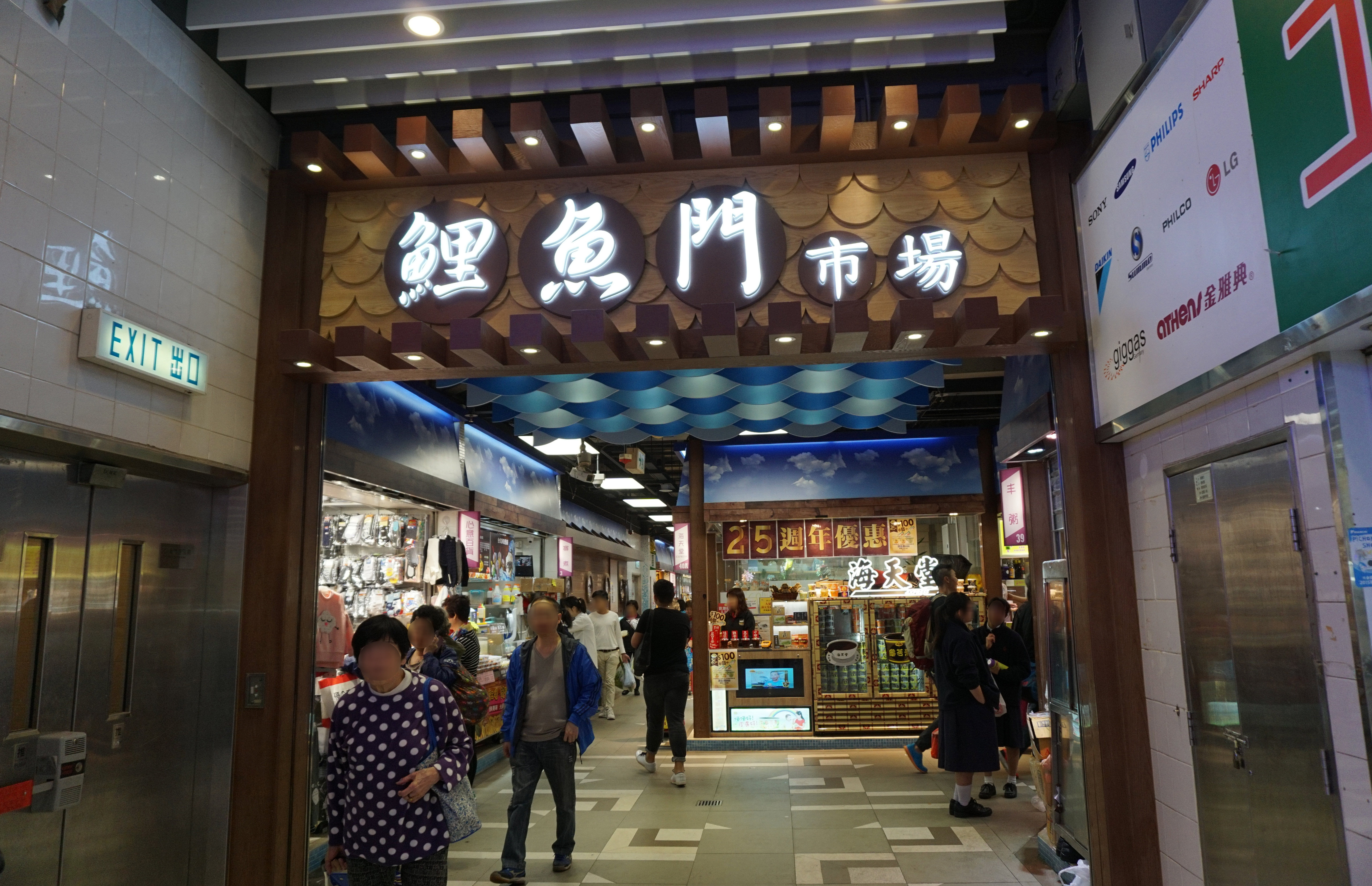 Lei Yue Mun Market in Yau Tong, Hong Kong.